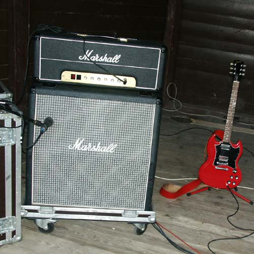 Marshall amp